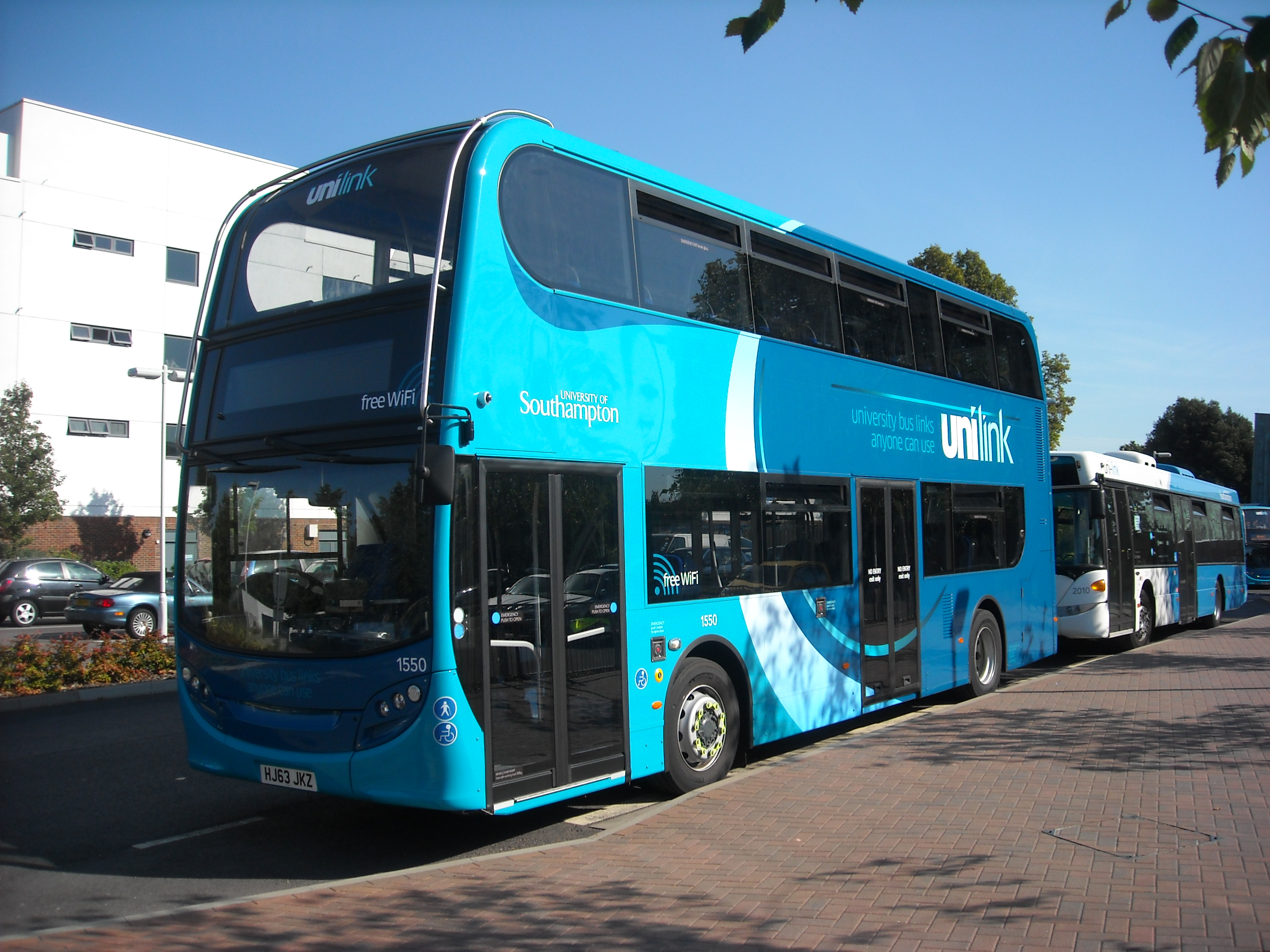 One of Unilink's new Alexander Dennis Enviro 400 buses, launched on 3 September 2013, stood unused at the stand at the University central interchange.